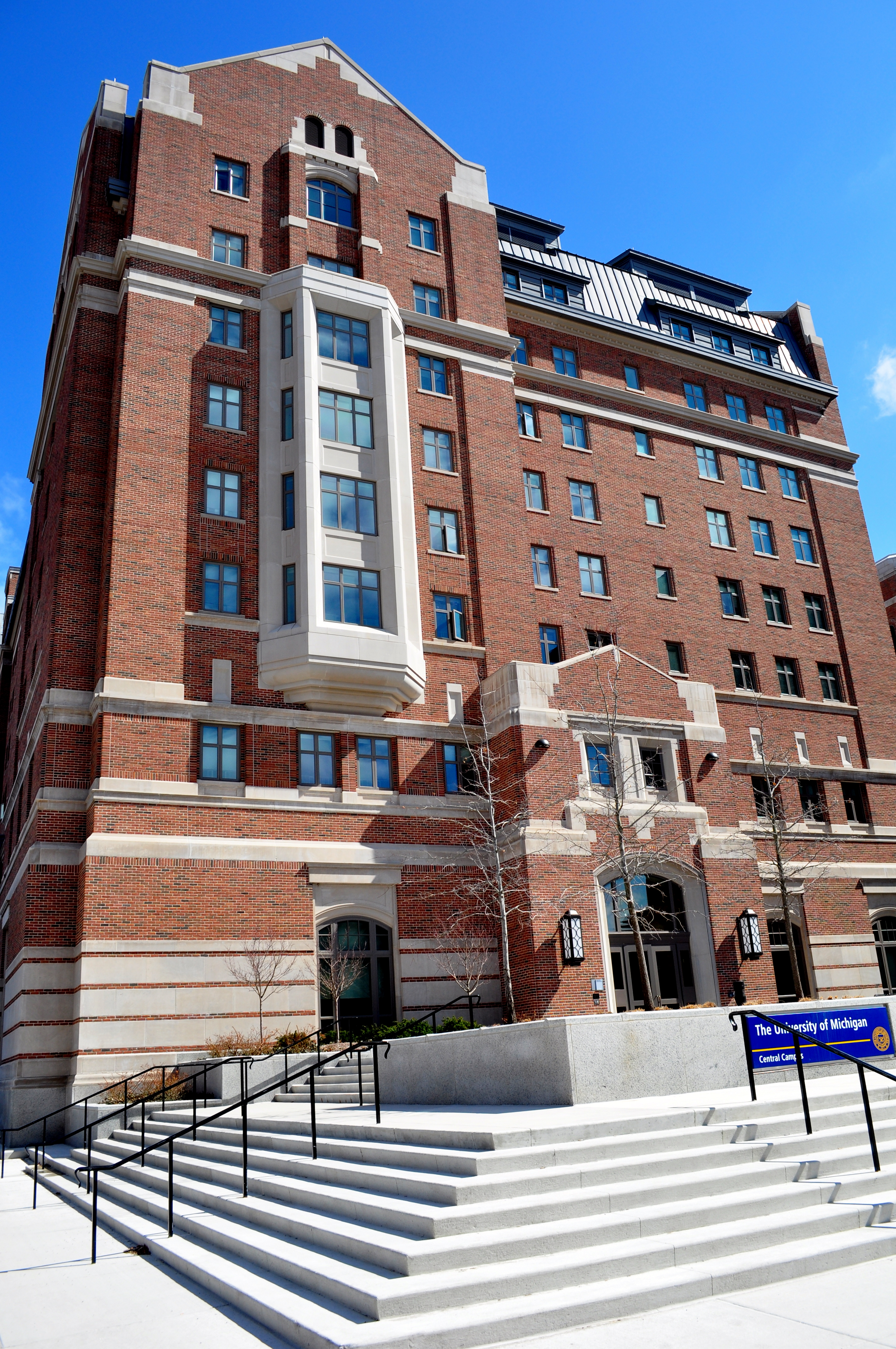 A photograph of North Quad Residence Hall. March 24, 2011